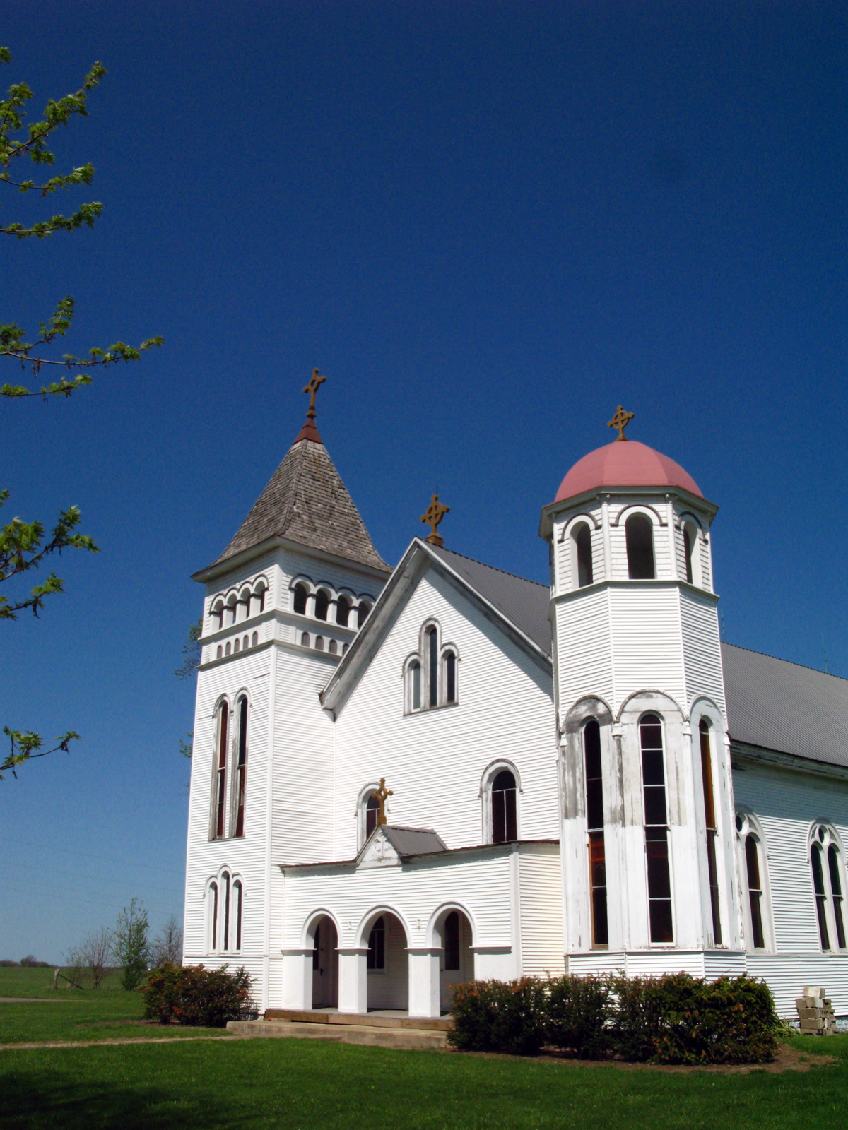 St. Mary's Catholic Church in Adair, Missouri. It has been on the National Register of Historic Places since the mid-1970. No services are currently held there. Photo was taken 29 April 2007. Photo courtesy of Wes Harman via Flickr.